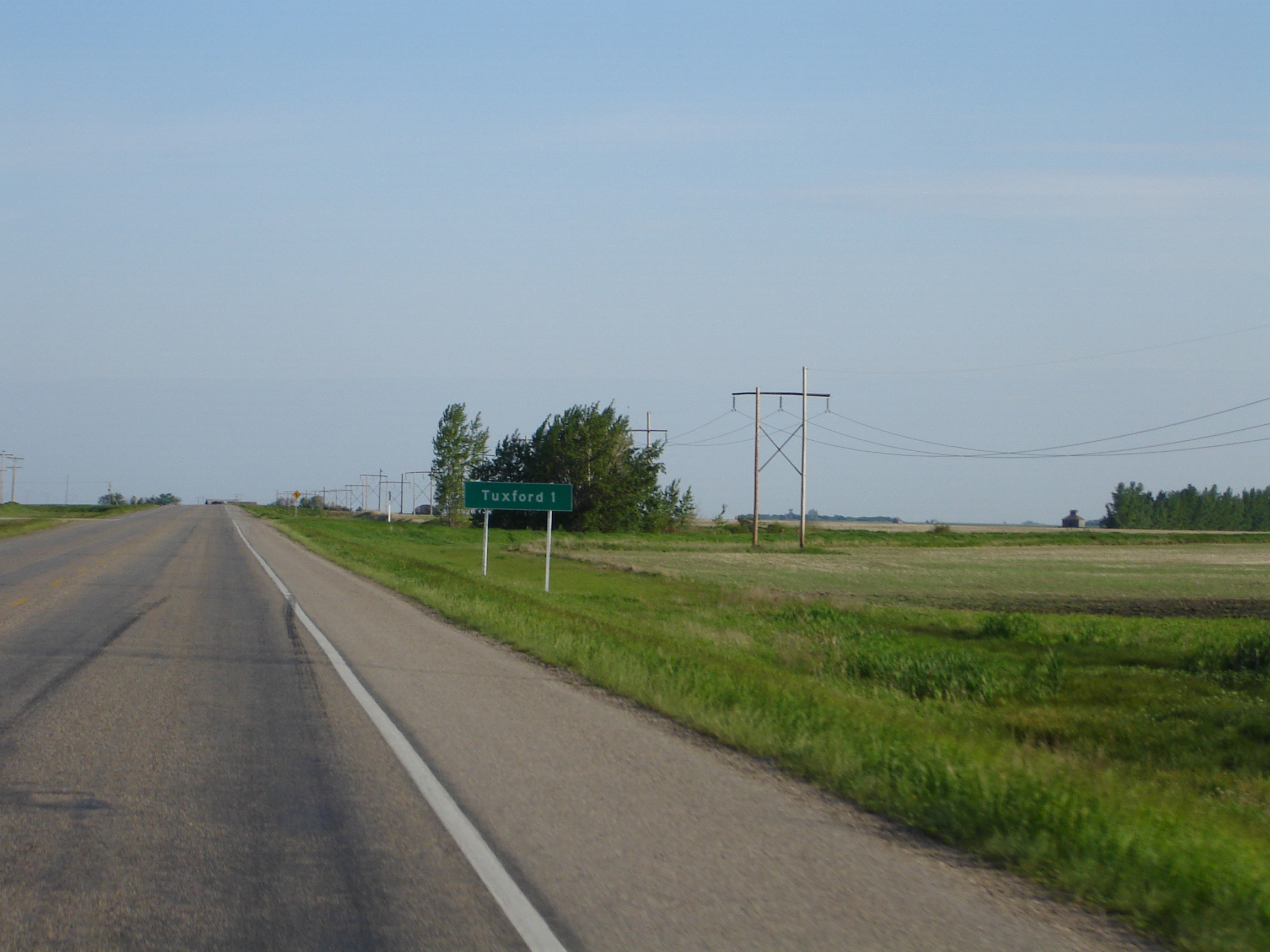 Tuxford 1 Road Signage Photo taken from Saskatchewan Highway 2 travelling north from Moose Jaw to Saskatchewan Highway 11